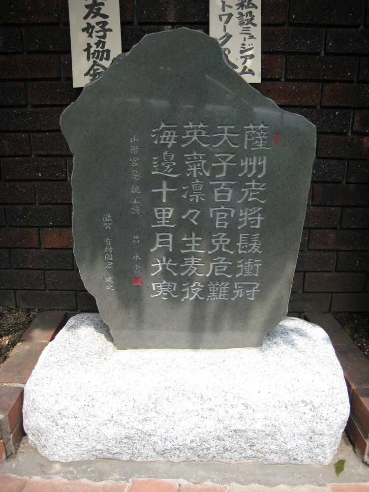 Poetic monument of Namamugi Incident in Yokohama, Japan, located at the spot where the incident occurred. Since this photo was taken, superhighway construction forced it to be displaced about 10 m southwards